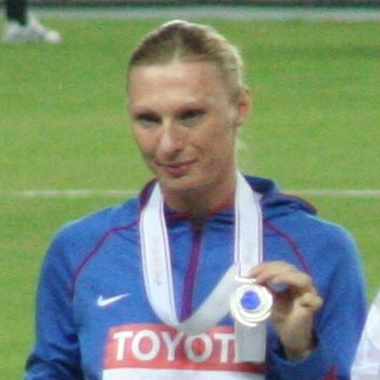 World Athletics Championships 2007 in Osaka - Victory ceremony for the women*s 400 metres hurdles